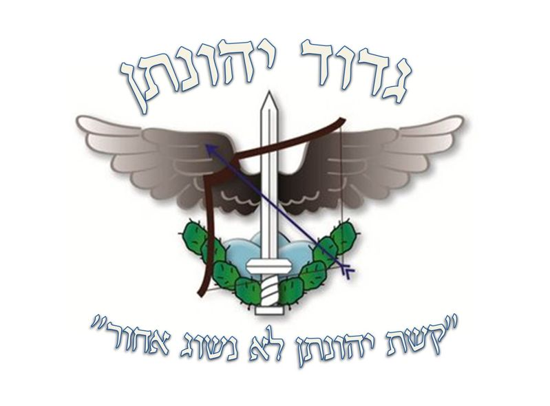 Yehonatan symbol